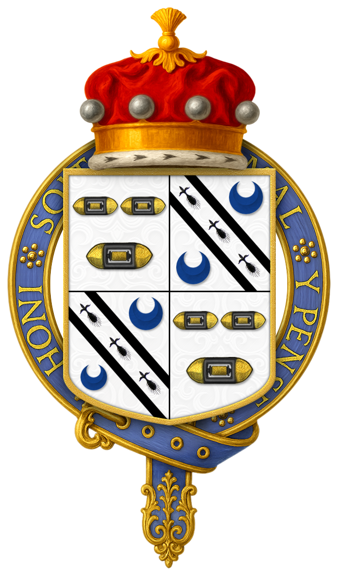 Coat of Arms of Charles Kay-Shuttleworth, 5th Baron Shuttleworth, KG, KCVO